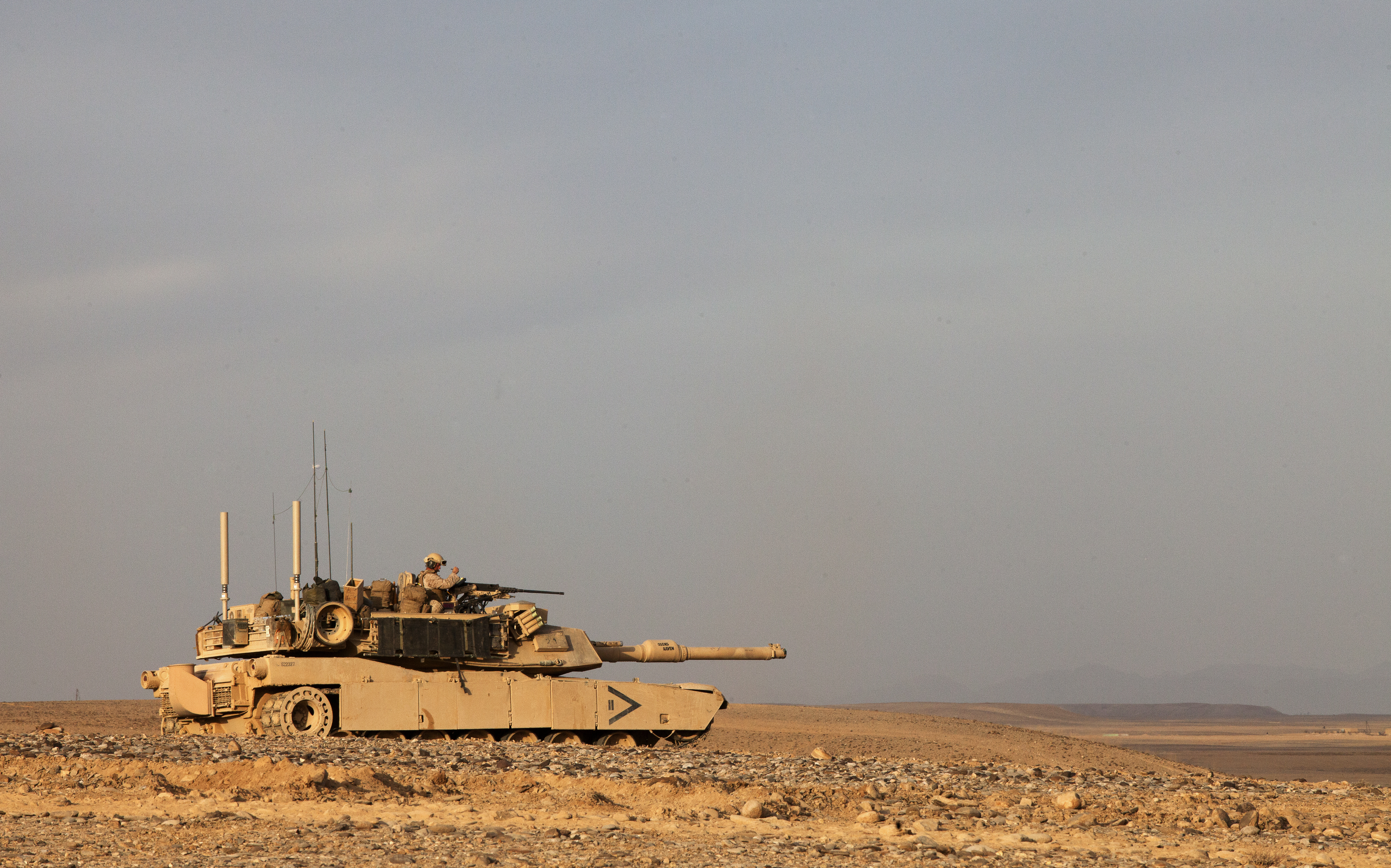 A U.S. Marine Corps M1A1 Abrams tank assigned to Delta Company, 1st Tank Battalion, provides overwatch security in support of Operation Dynamic Partnership in Shurakay, Helmand province, Afghanistan, Feb. 12, 2013. Dynamic Partnership was a multi-unit operation to retrograde all U.S. military equipment and personnel from village stability platform Shurakay (U.S. Marine Corps photo by Cpl. Alejandro Pena/Released) Unit: Regimental Combat Team-7, 1st Marine Division Public Affairs